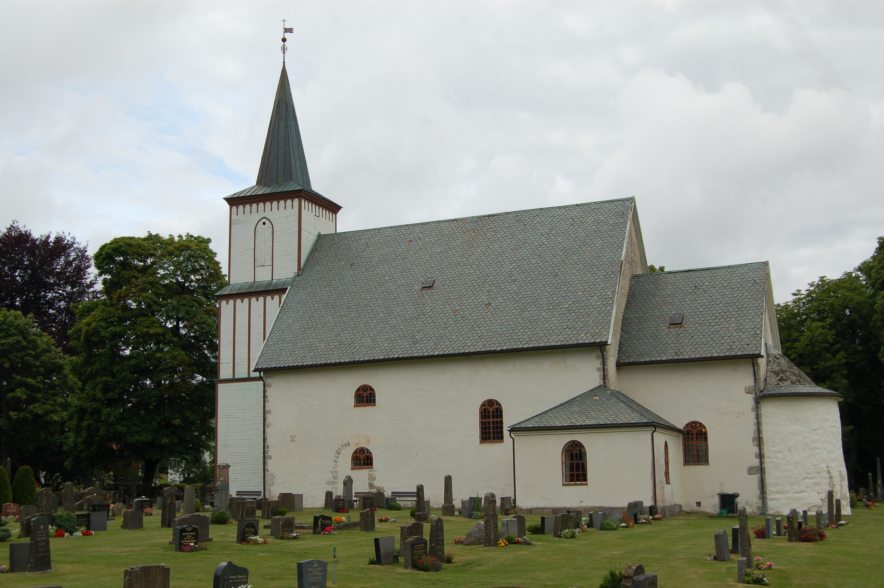 Tanum church, Larvik, Norway